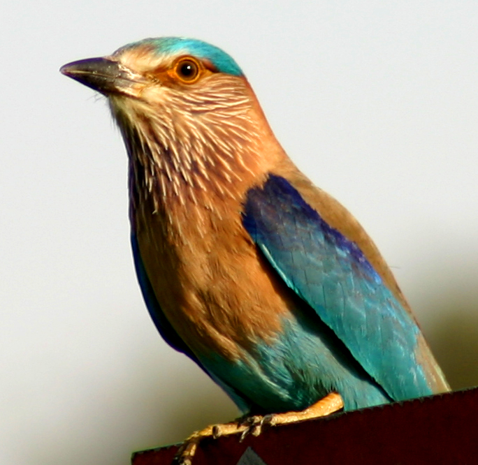 A Coracias roller. Dysmorodrepanis 04:20, 27 May 2008 (UTC)